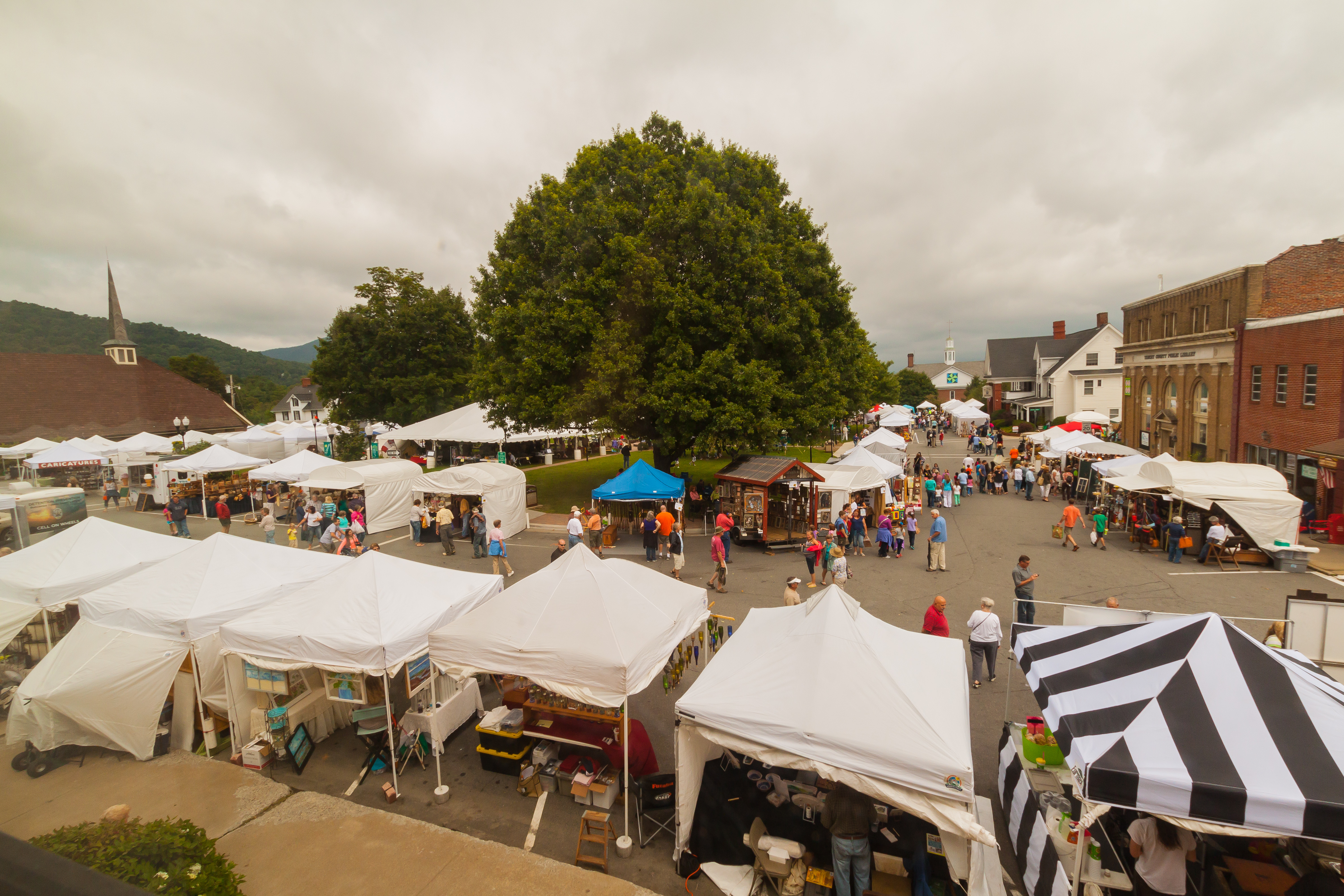 Looking east along south side of town square, Yancey County Courthouse in the background.